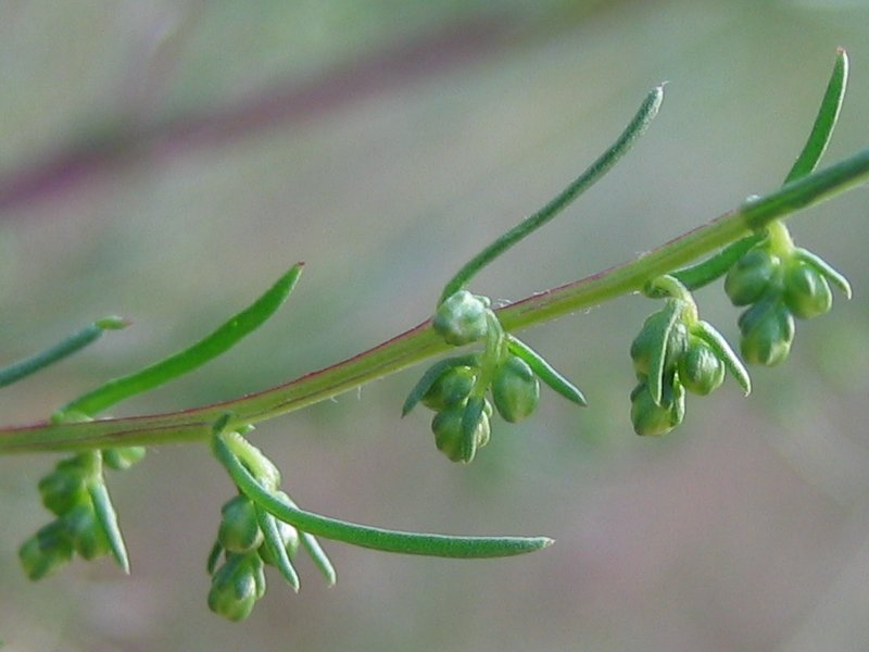 Feld-Beifuß (Artemisia campestris)